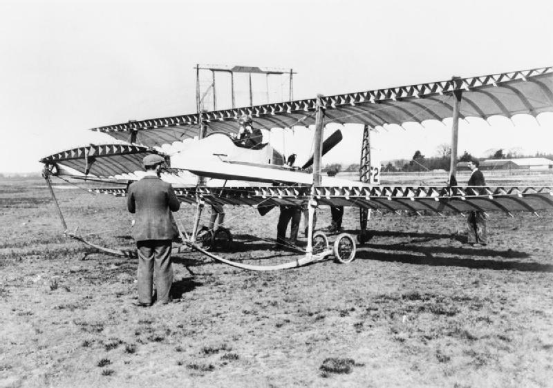 Aviation in Britain Before the First World War A Paulhan biplane on the ground, the airship shed can be seen in the background.